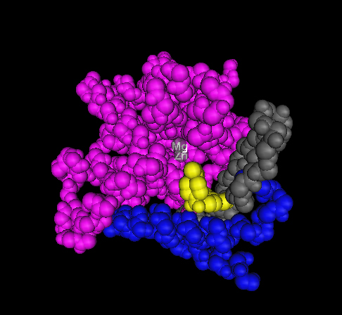 Reynir Scheving, Image produced by Cn3D12 from (